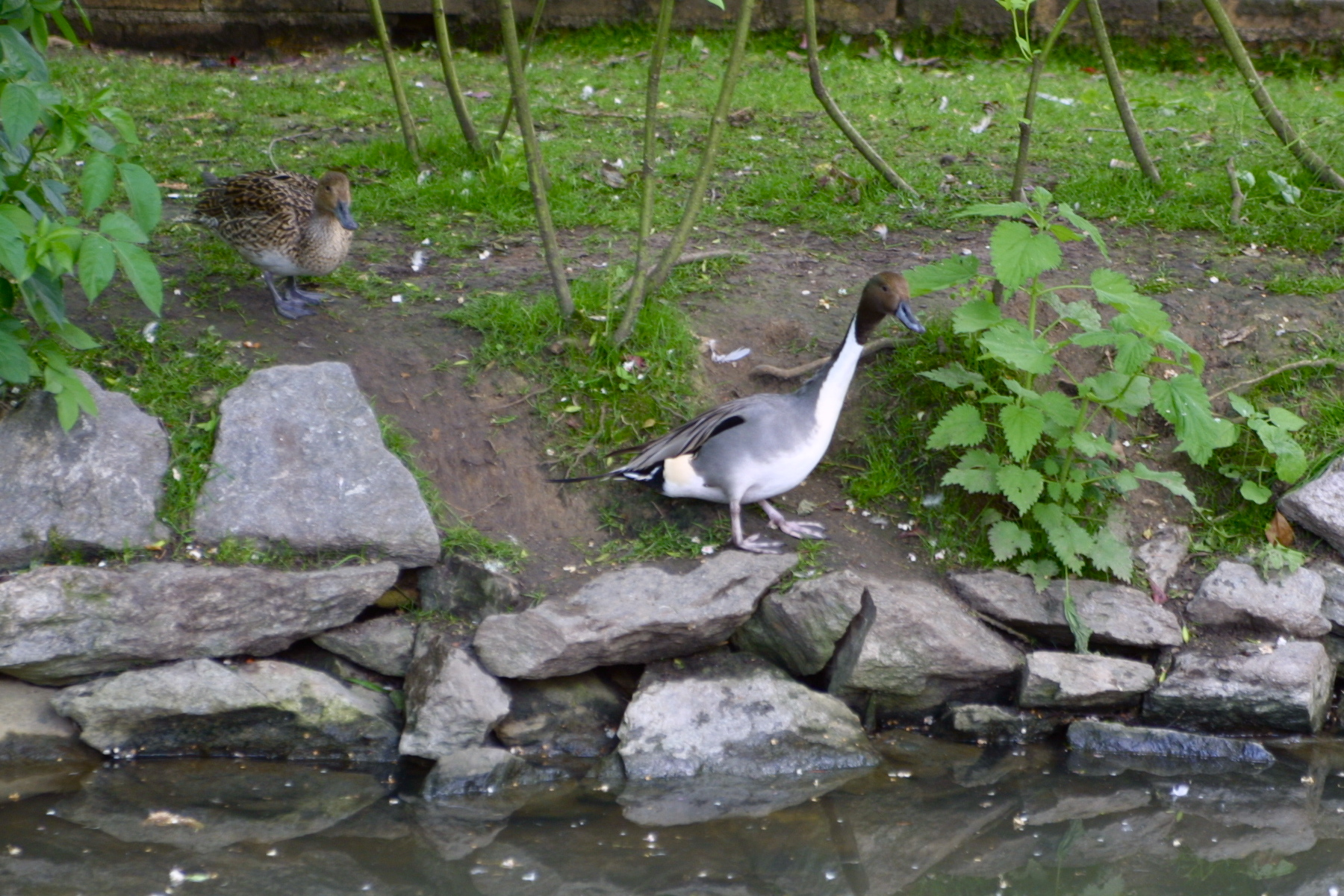 A pair of Northern Pintails at ZooParc de Beauval, France.